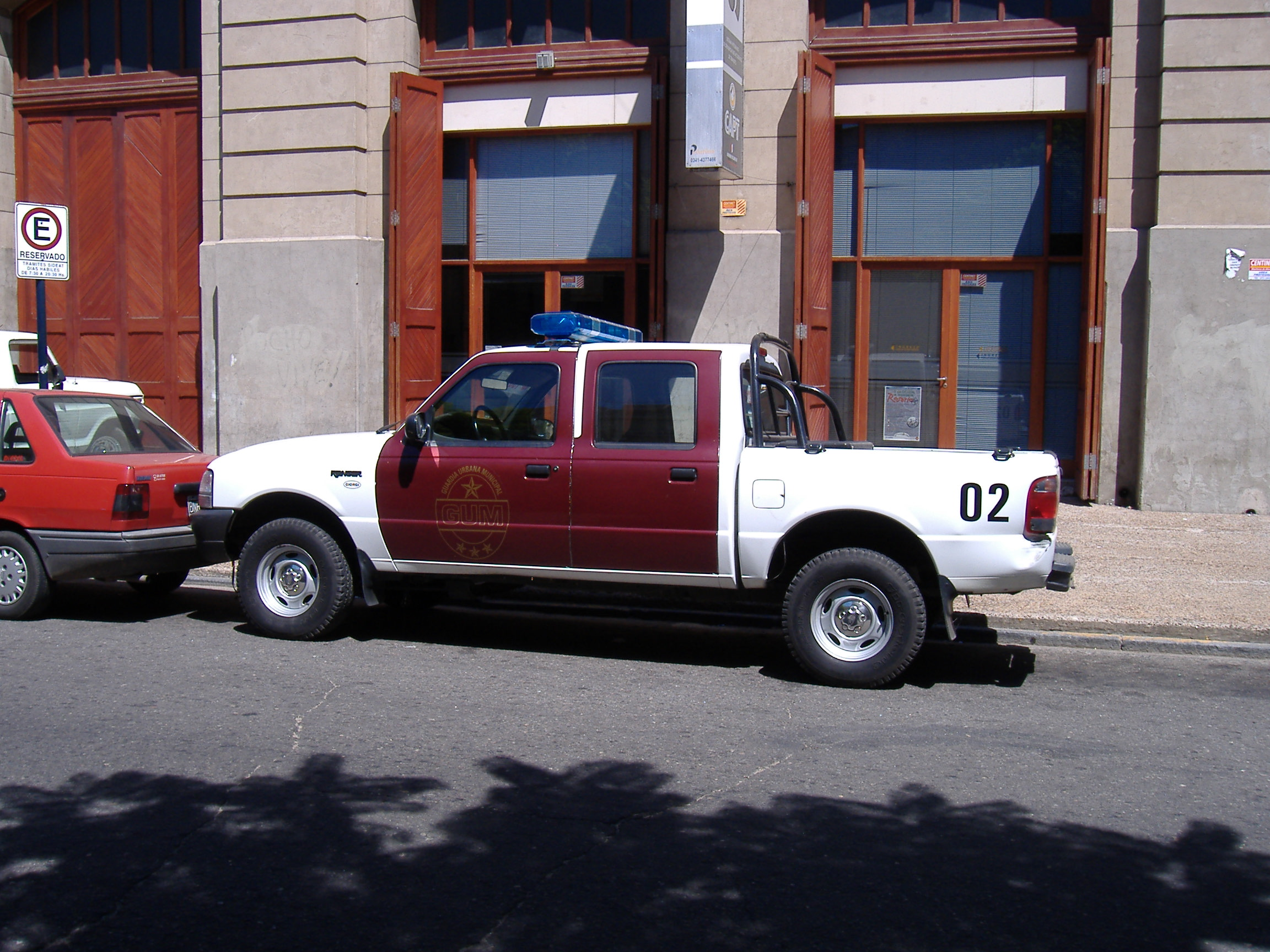 A mobile unit of the Guardia Urbana Municipal (Municipal Urban Guard) of Rosario, Argentina. This picture was taken by Pablo D. Flores on 7 March 2006.